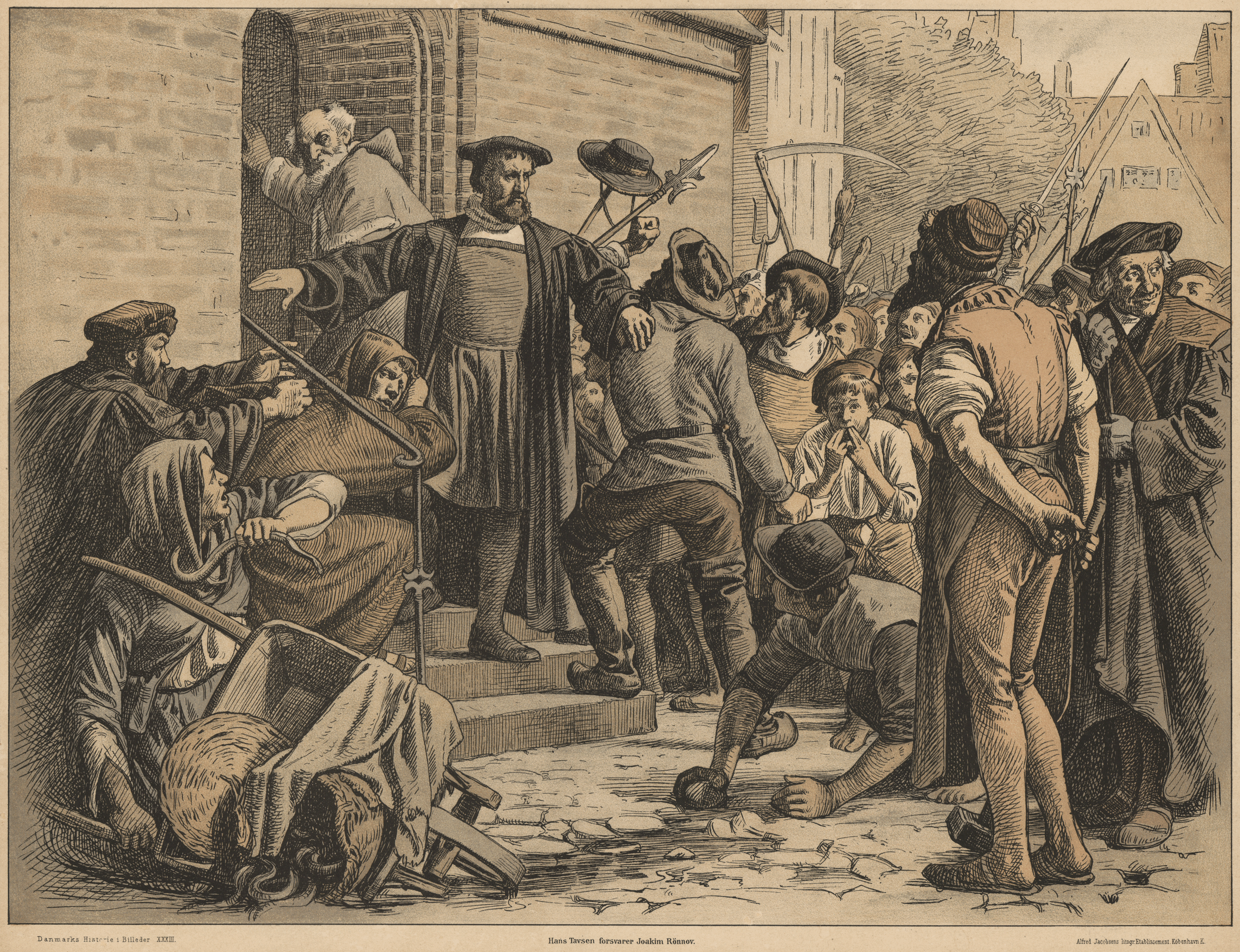 In 1533, the Danish theologian Hans Tausen was convicted of blasphemy, and this caused an oproar in the Protestant city of Copenhagen. The scene shows Tausen defending Joachim Rønnow, bishop of Zealand, against the mob. Colour lithograph on paper, glued on cardboard. Unsigned, but accredited to Louis Moe. Text: Danmarks historie i Billeder XXXIII, Hans Tavsen forsvarer Joakim Rönnov. Alfred Jacobsens litogr. Etablissement, København K. Published in 1898, documented in V.E. Clausen: Folkelig grafik i Skandinavien, 1973, page 144. Cropped by uploader.